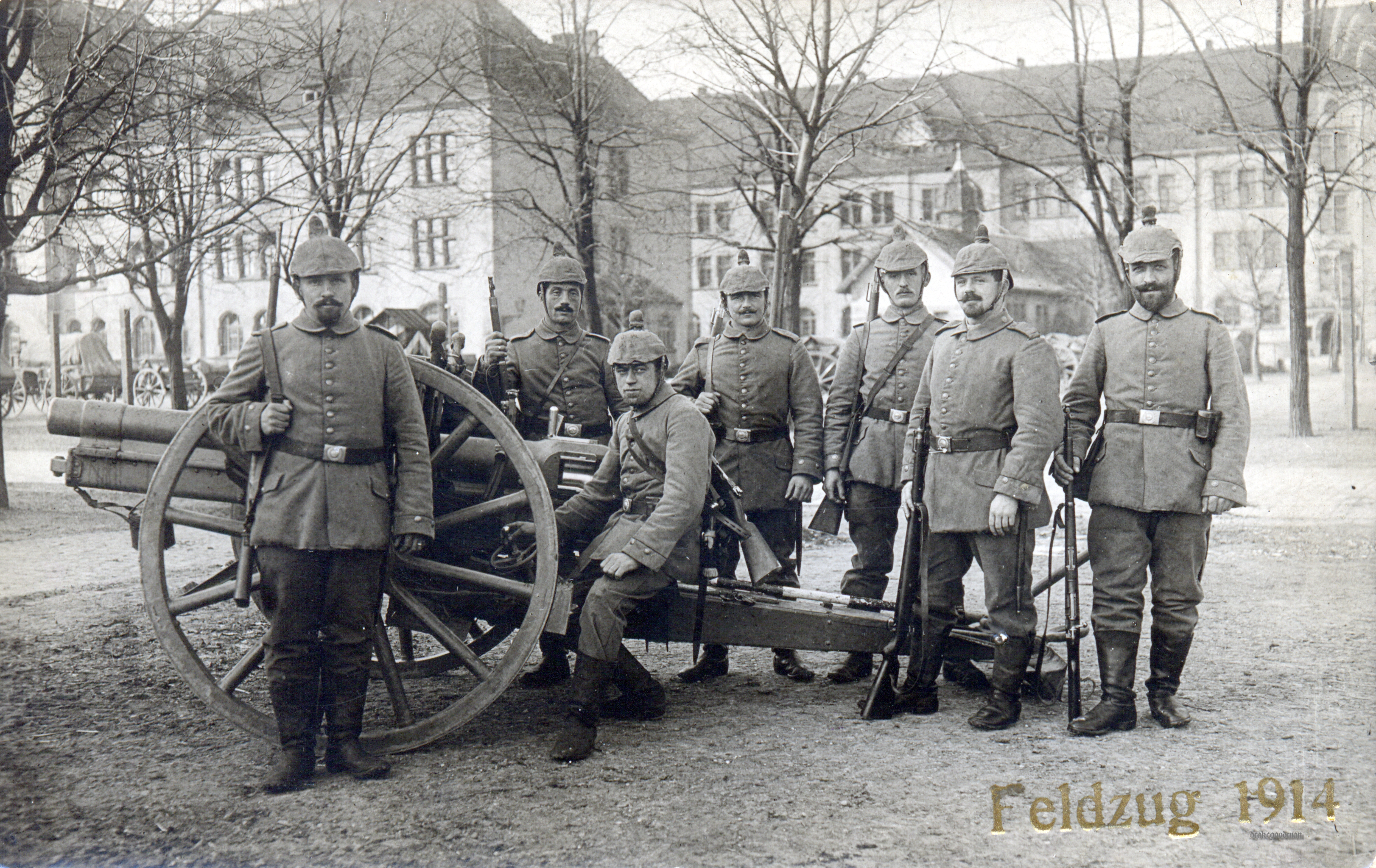 Unidentified Field Artillery Regiment crew and their 7.7 cm Feldkanone 96 n.A. probably in front of barracks building during training (postally unused postcard, nothing on reverse)